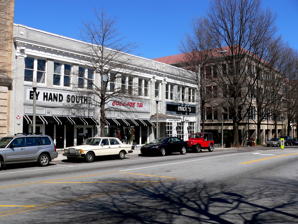 Downtown Decatur, Georgia